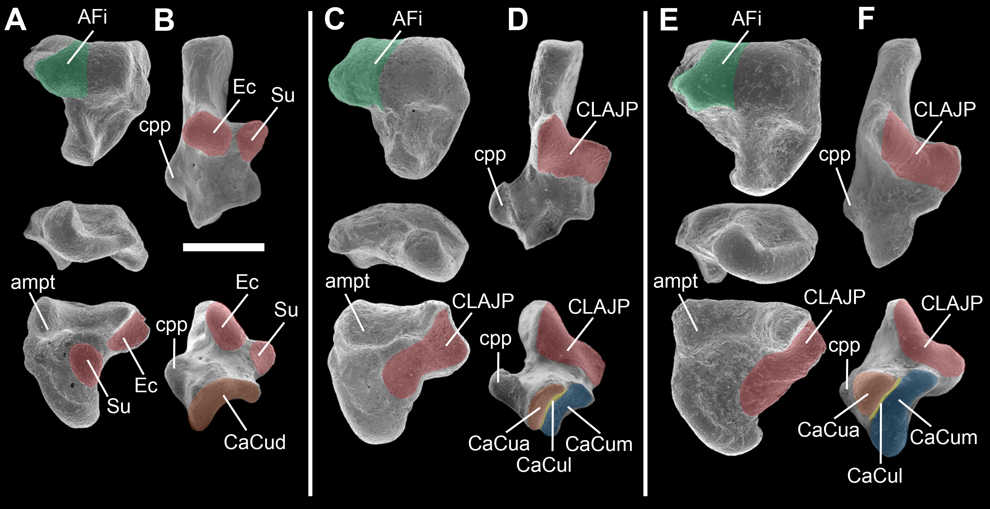 Comparison of isolated tarsals of Djarthia murgonensis with an extant australidelphian marsupial and an extant non-australidelphian (‘ameridelphian’) marsupial. Astragali (A, C, E) and calcanea (B, D, F) of the ‘ameridelphian’ didelphid Thylamys elegans (A–B), Djarthia murgonensis (C–D) and the australidelphian microbiotheriid Dromiciops australis (E–F). Astragali illustrated in dorsal (top), distal (middle) and ventral (bottom) views. Calcanea illustrated in dorsal (top) and distal (bottom) views. Scale bar, 1 mm. AFi, astragalofibular facet (green); ampt, astragalar medial plantar tuberosity; CaCua, auxiliary calcaneocuboid facet (orange); CaCud, distal calcaneocuboid facet (orange); CaCul, lateral calcaneocuboid facet (yellow); CaCum, medial calcaneocuboid facet (blue); CLAJP, continuous lower ankle joint pattern (red); cpp, peroneal process of the calcaneus; Ec, ectal facet (red); Su, sustentacular facet (red). Presence of the continuous lower ankle joint pattern and subdivision of the calcaneocuboid facet into three distinct facets are australidelphian synapomorphies [5]. Specimens illustrated (UNSW Palaeontology Laboratory collection (a–b, e–f) and Queensland Museum palaeontology collection): A–B, unregistered specimen; C, QM F52750; D, QM F52747; E–F, unregistered specimen.